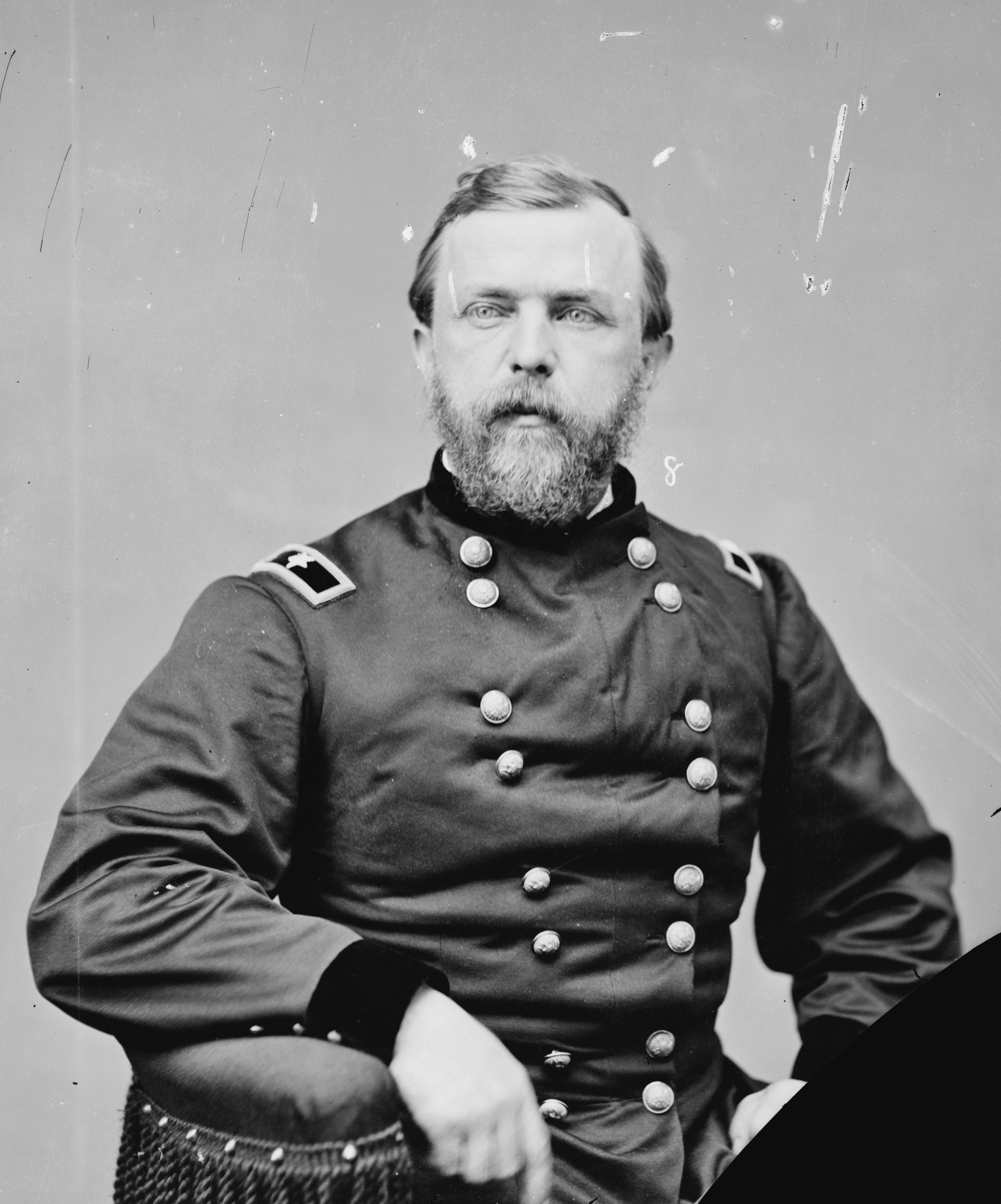 Union Army officer and Medal of Honor recipient Isaac S. Catlin